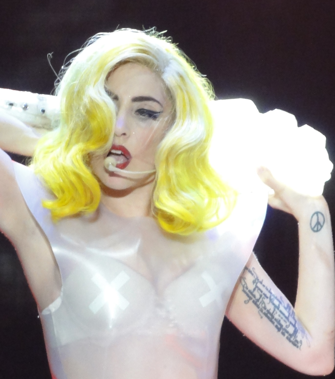 Gaga in the Monster Ball Tour, on her left hand the tattoo for Rainer Rilke is seen